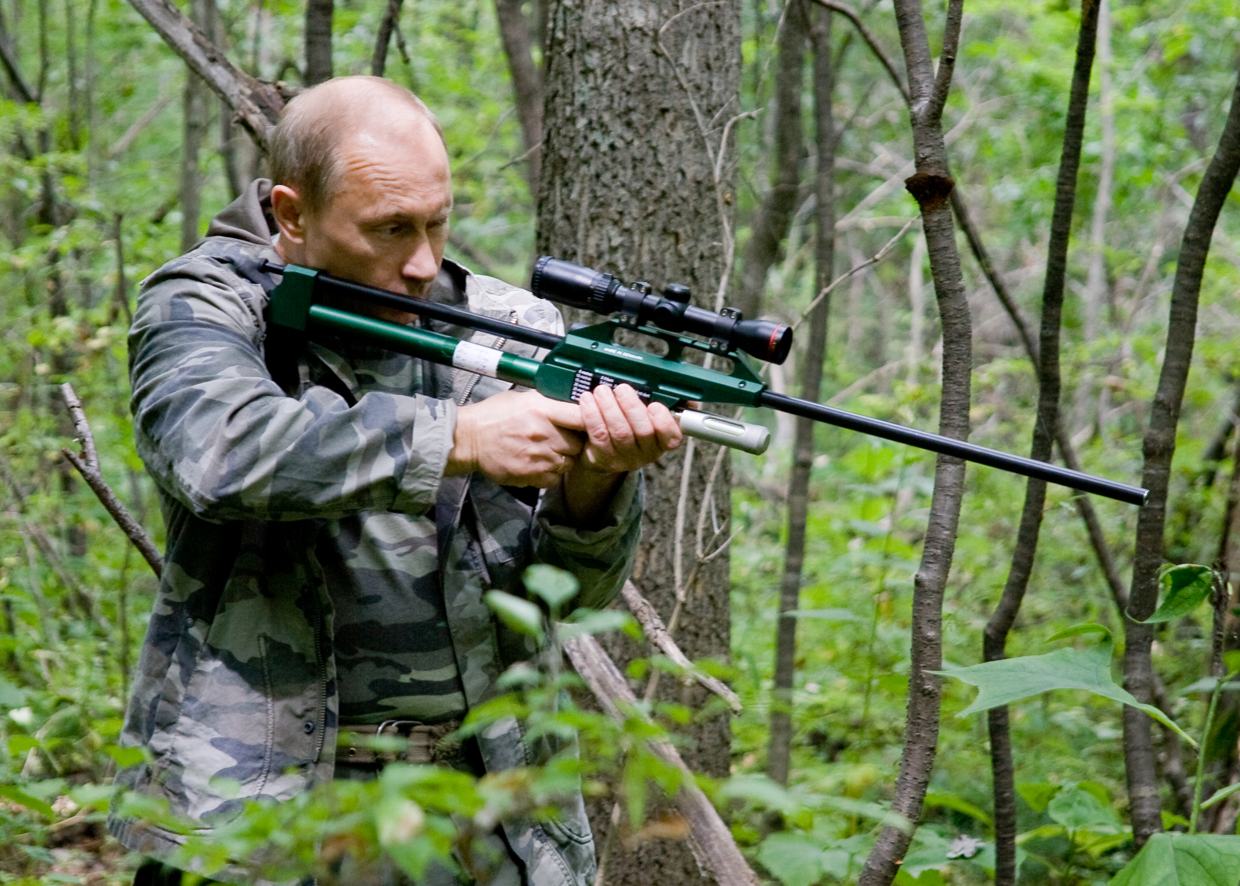 Vladimir Putin's uses a tranquiliser gun to sedate an Amur Tiger during his visit to the Ussurri Nature Reserve in Primorsky Krai